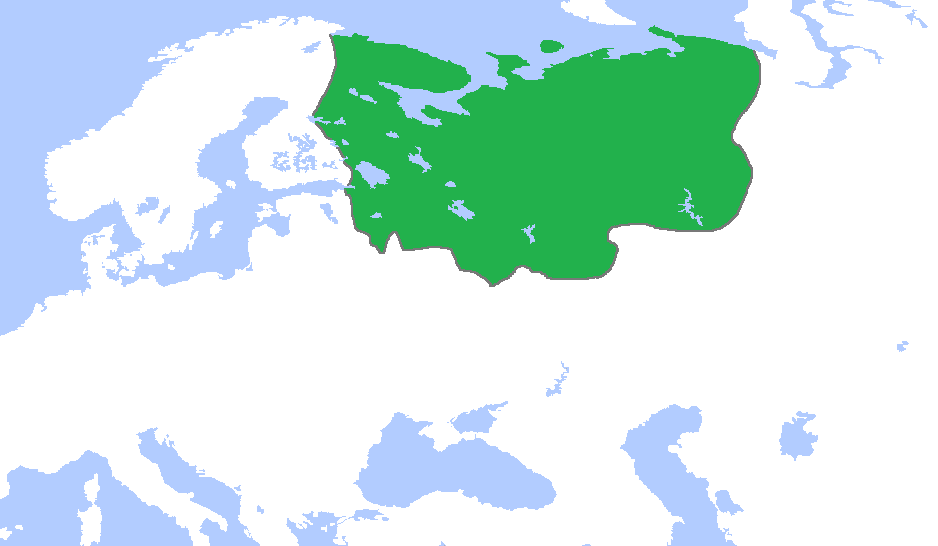 Locator map of the Moscow (Muscovy) state, c. 1500. (Partially based on Atlas of World History (2007) - The World 1400-1500, map)